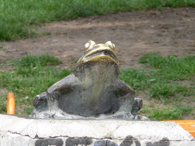 Detail of the fountain, named "Zhabkite" ("The Little Frogs") in the Ayazmoto Park, Stara Zagora, Bulgaria